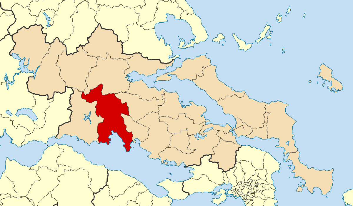 Locator map for Delfi municipality in Greek region Central Greece (2011)